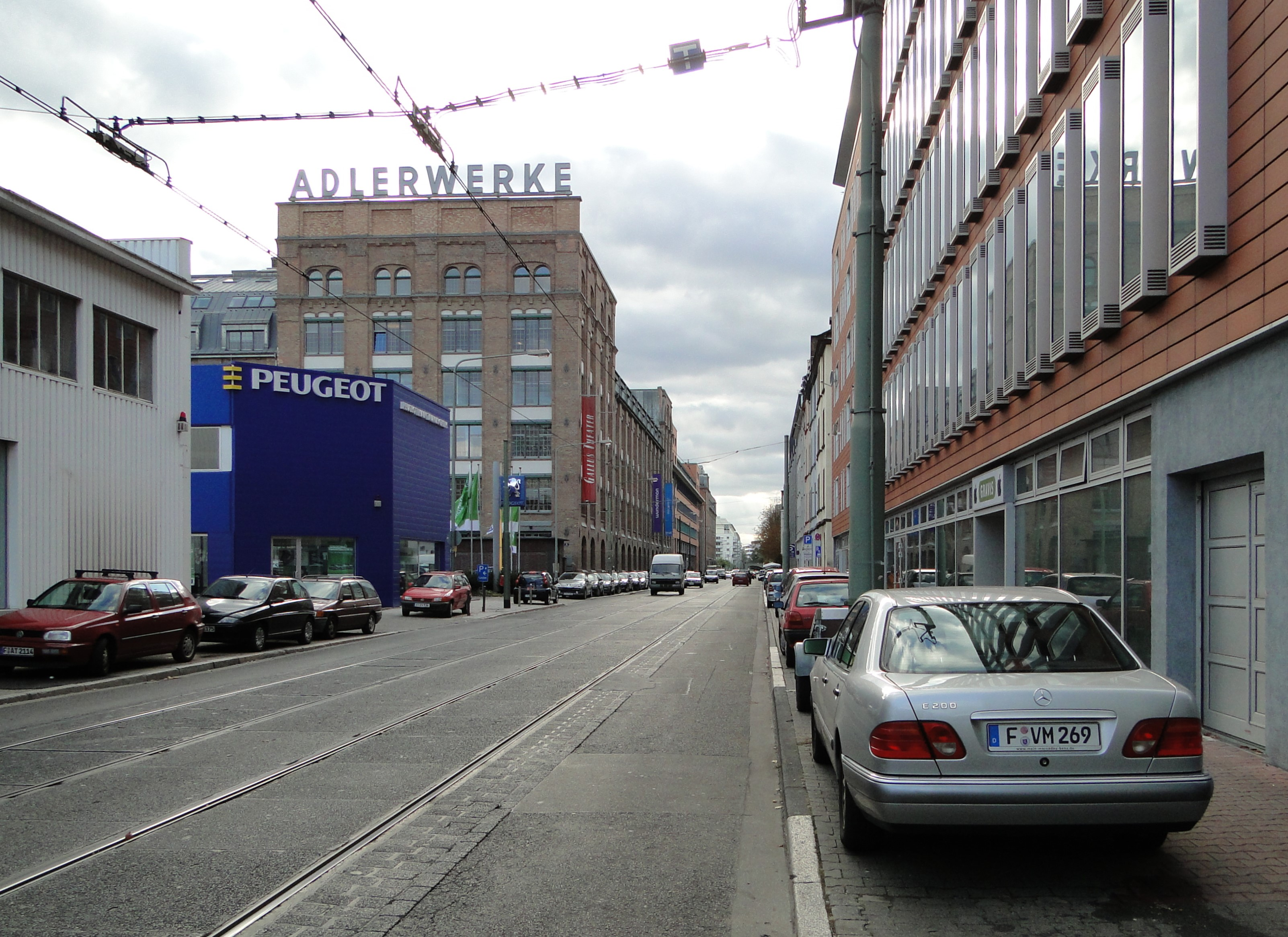 "Adlerwerke" at Kleyerstrasse in Frankfurt am Main-Gallus